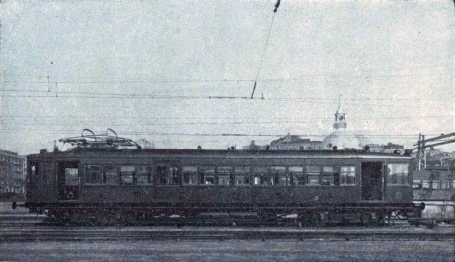 Electric railcar of the portuguese rail operator Sociedade Estoril, after being repaired and adapted to 3 classes in the Lisbon depot. This photograph was published on the Gazeta dos Caminhos de Ferro magazine No. 1123, of the 1st October 1934, and scanned by the Hemeroteca Municipal de Lisboa.